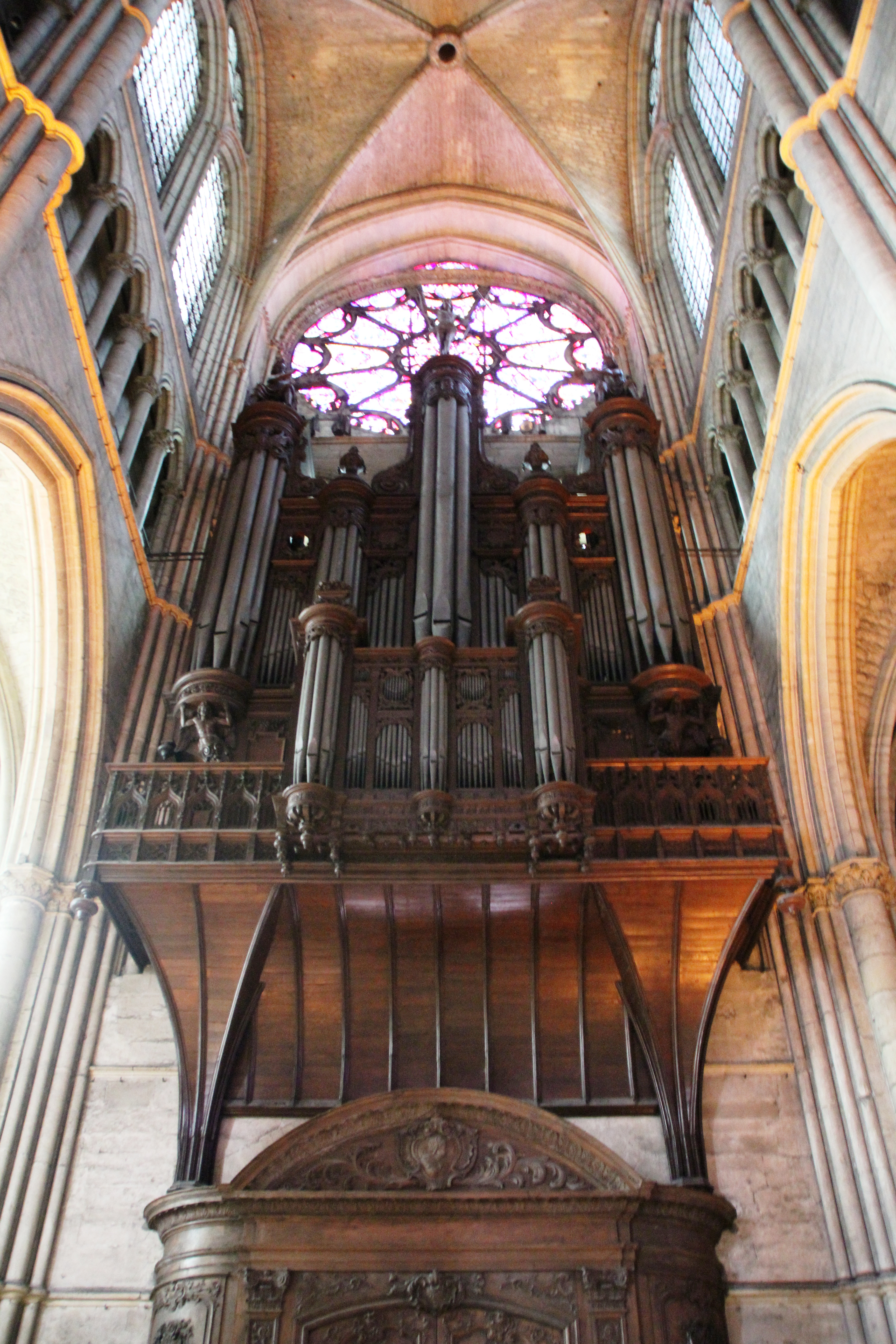 The 1487 pipe organ of Cathédrale Notre-Dame de Reims, built by organ constructor Oudin Heystre.